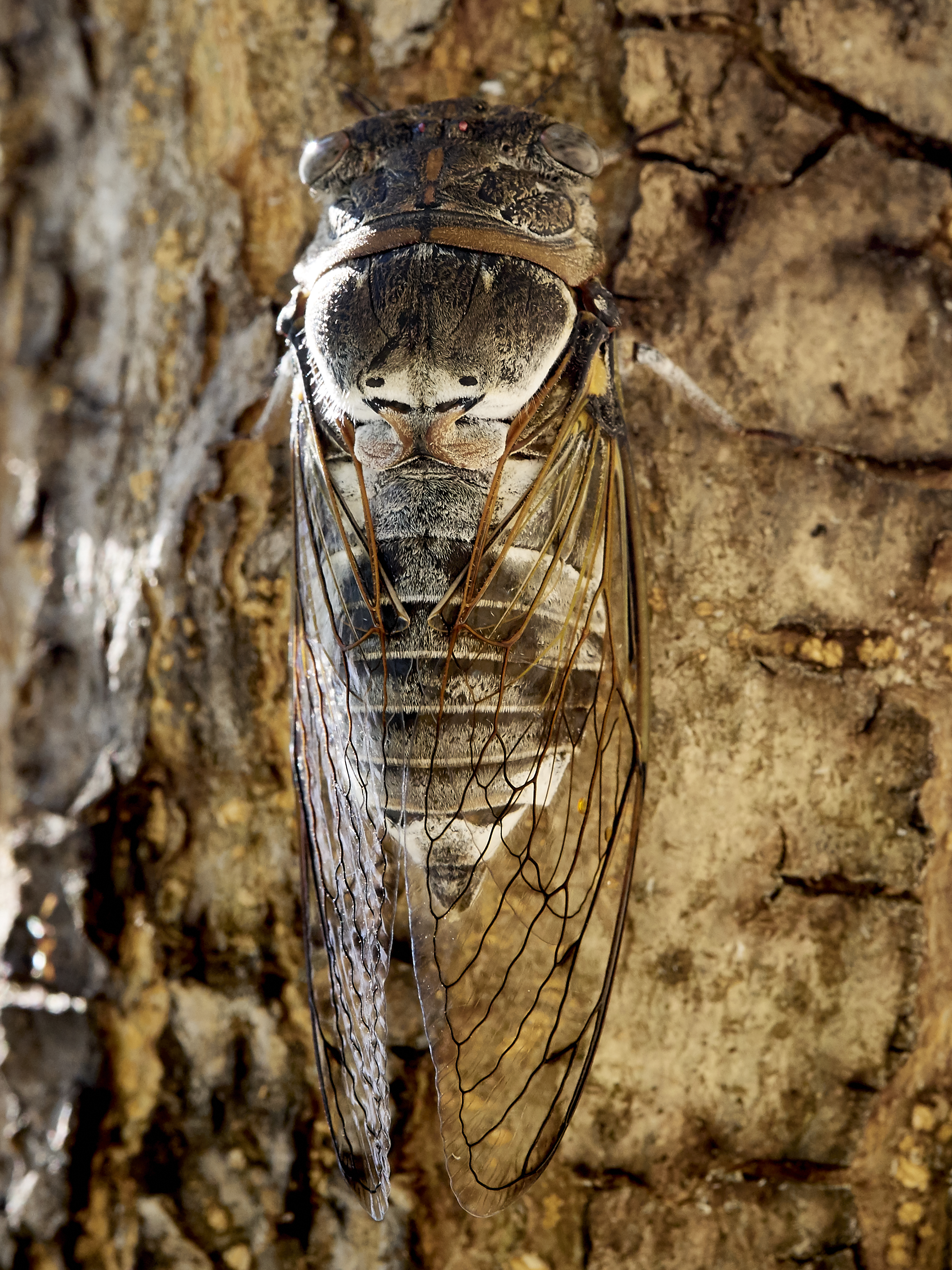 A cicada (cicada orni, according to WP:de/Redaktion Biologie/Bestimmung) on an olive tree near Koroni, Greece